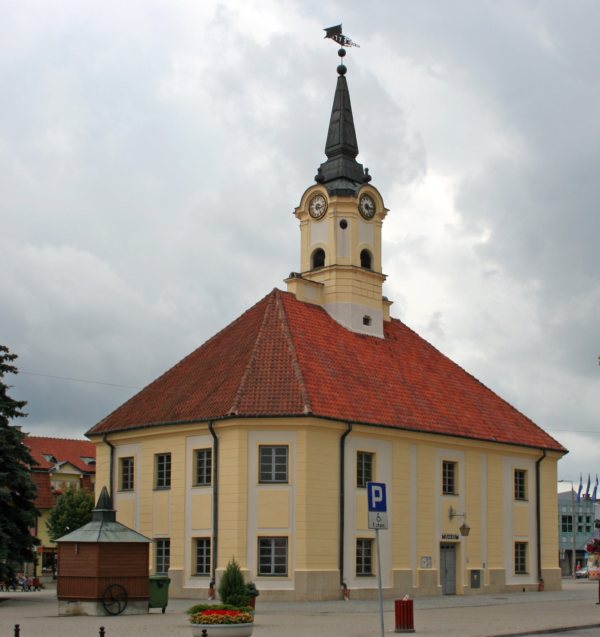 Old town hall in Bielsk Podlaski, now museum.